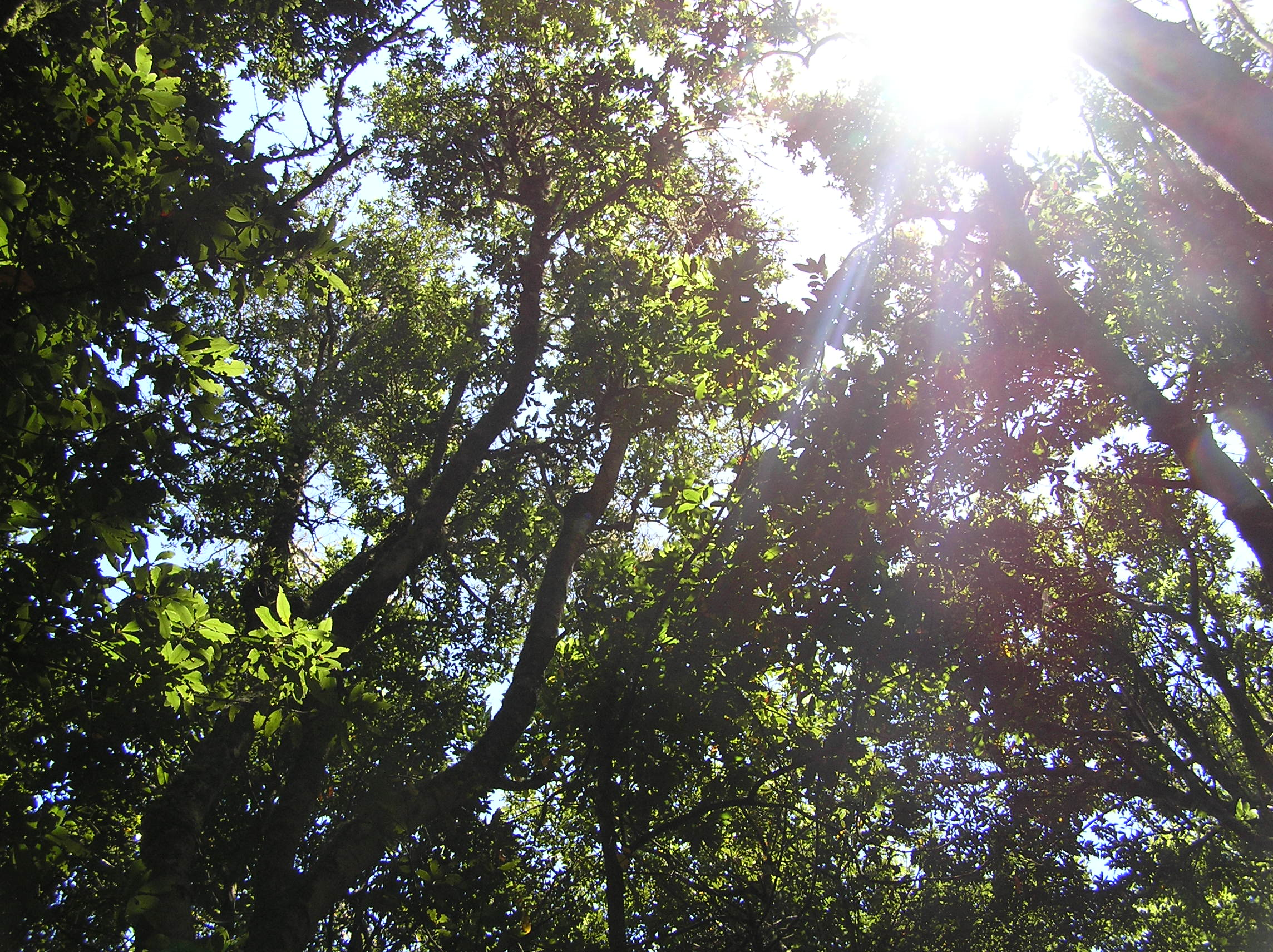 Example of a Laurel Forest Canopy, taken in Tenerife.